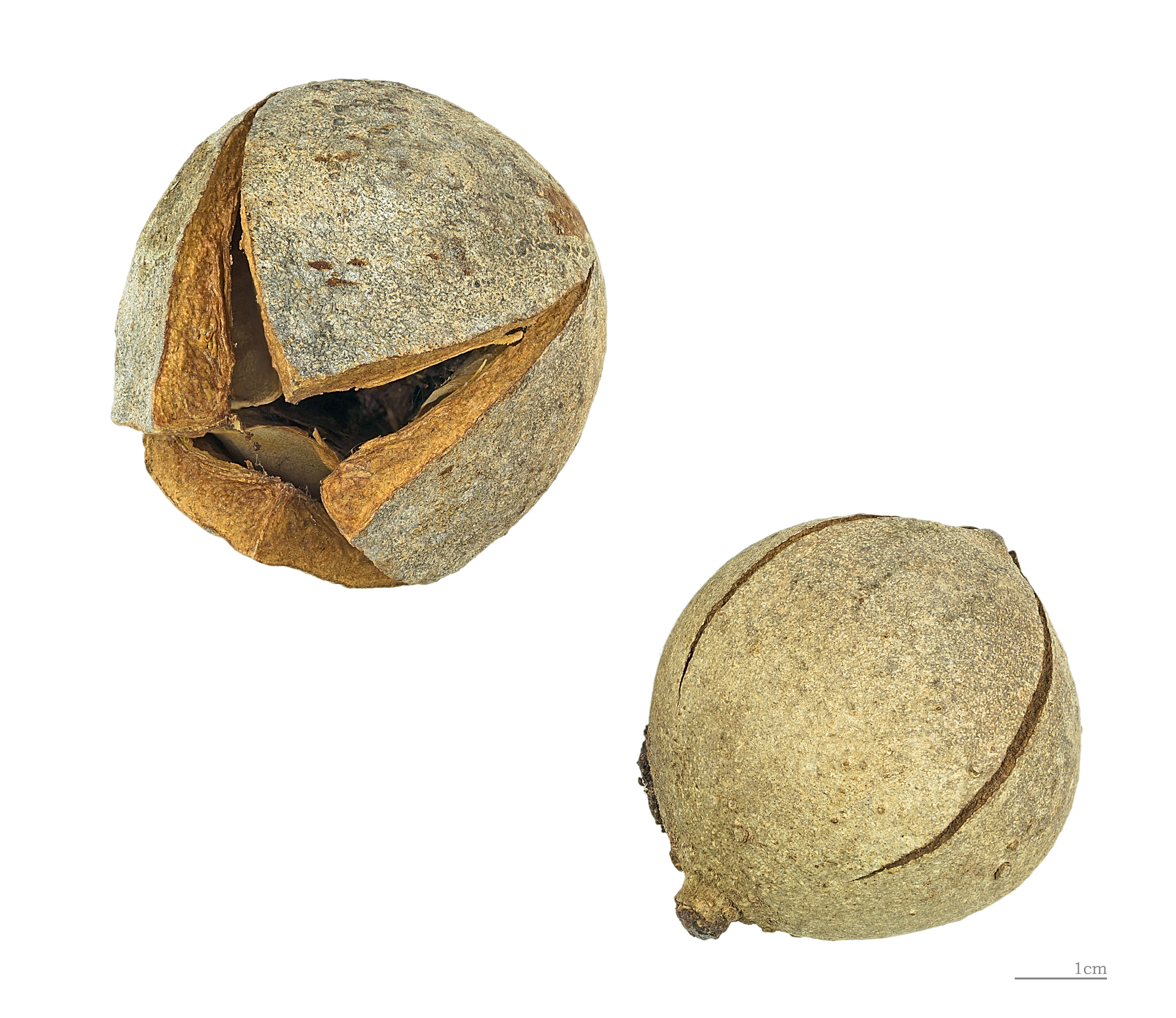 African mahogany, fruits. Provenance : Runway edge near Tanguieta, Benin.